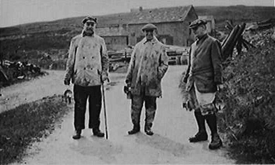 Prof Henry Louis is the man who saved the Minute Books from the London Lead Co from being burnt by the liquidator at Middleton in Teesdale. He was a Consultant Geologist for the Weardale Lead Company. Mr Willis, once told Sir Kingsley Durham that he was the last manager alive who managed a mine for the London Lead Company. This is thought to have been a Cornish Hush. Capt Anthony Wilson (Consultant Mining Engineer and Director of Weardale Lead Company also Manager of Thornthwaite and Threlkeld Lead Mines. Beamish Museum Ltd - People's Collection Location: Boltsburn County: Co Durham NEG16204